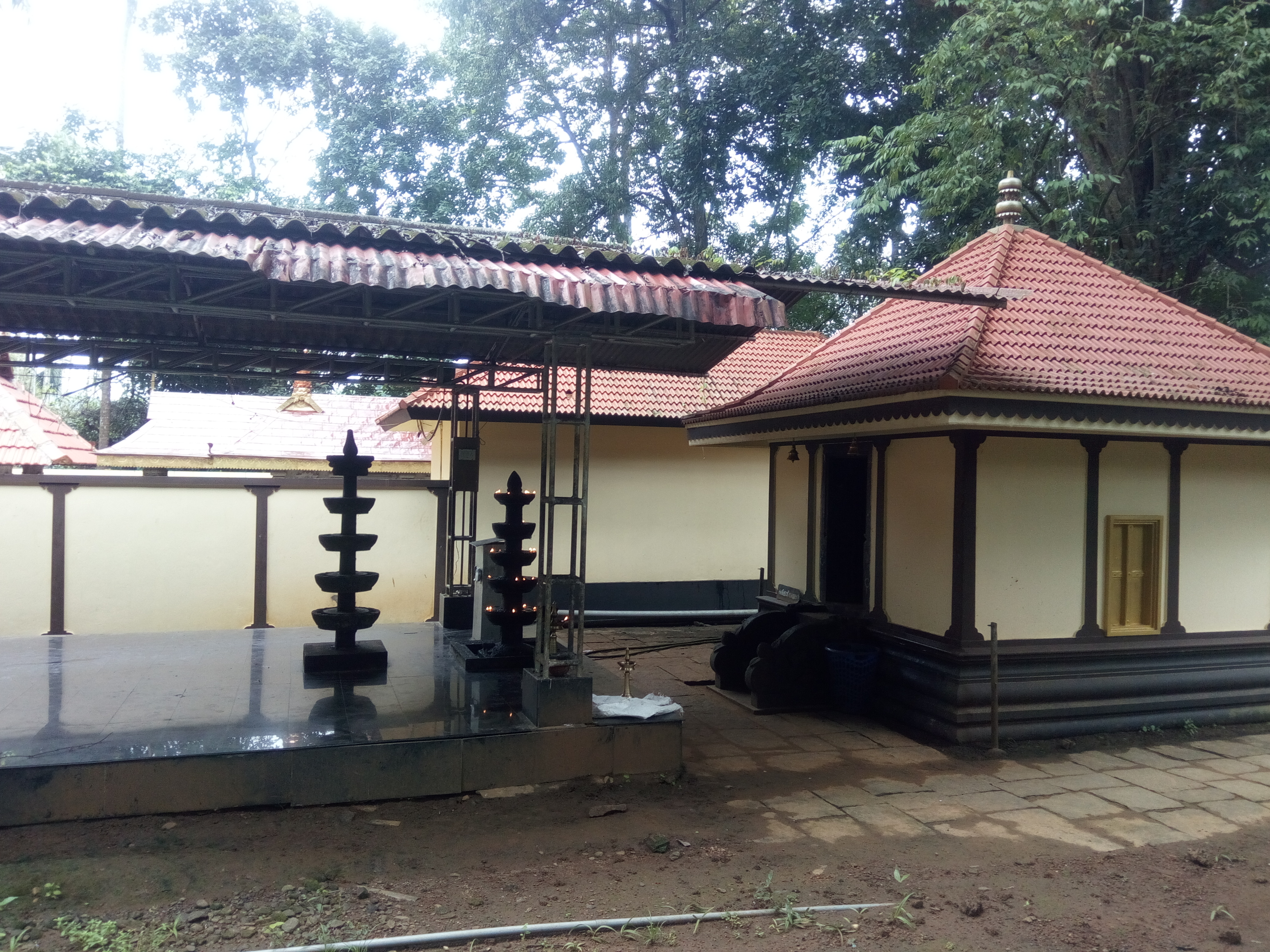 Chemmanthitta kavu is an famous vanadurga temple in karulai region of malappuram district. It is situated in the shore of karimpuzha